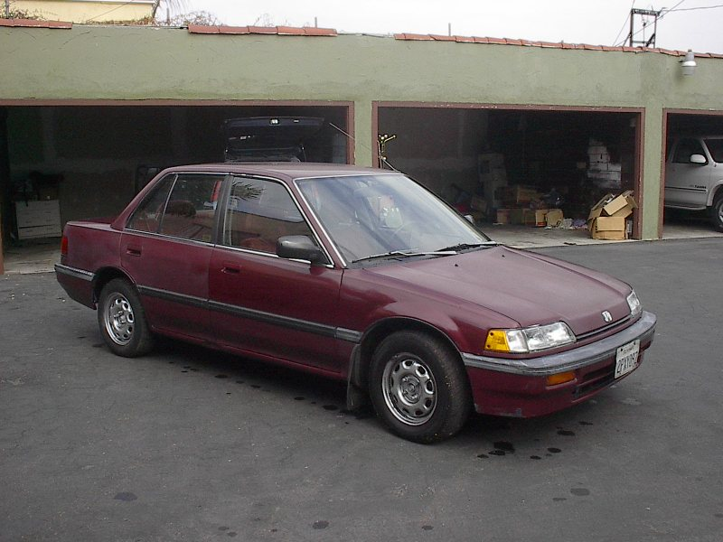 1988-1991 USDM Honda Civic